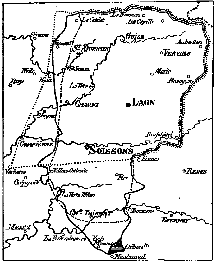 Comparaison des propostitions du Comité de Constitution de Septembre et Décembre 1789